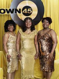 Lois, Martha and Delphine Reeves at Motown 45.